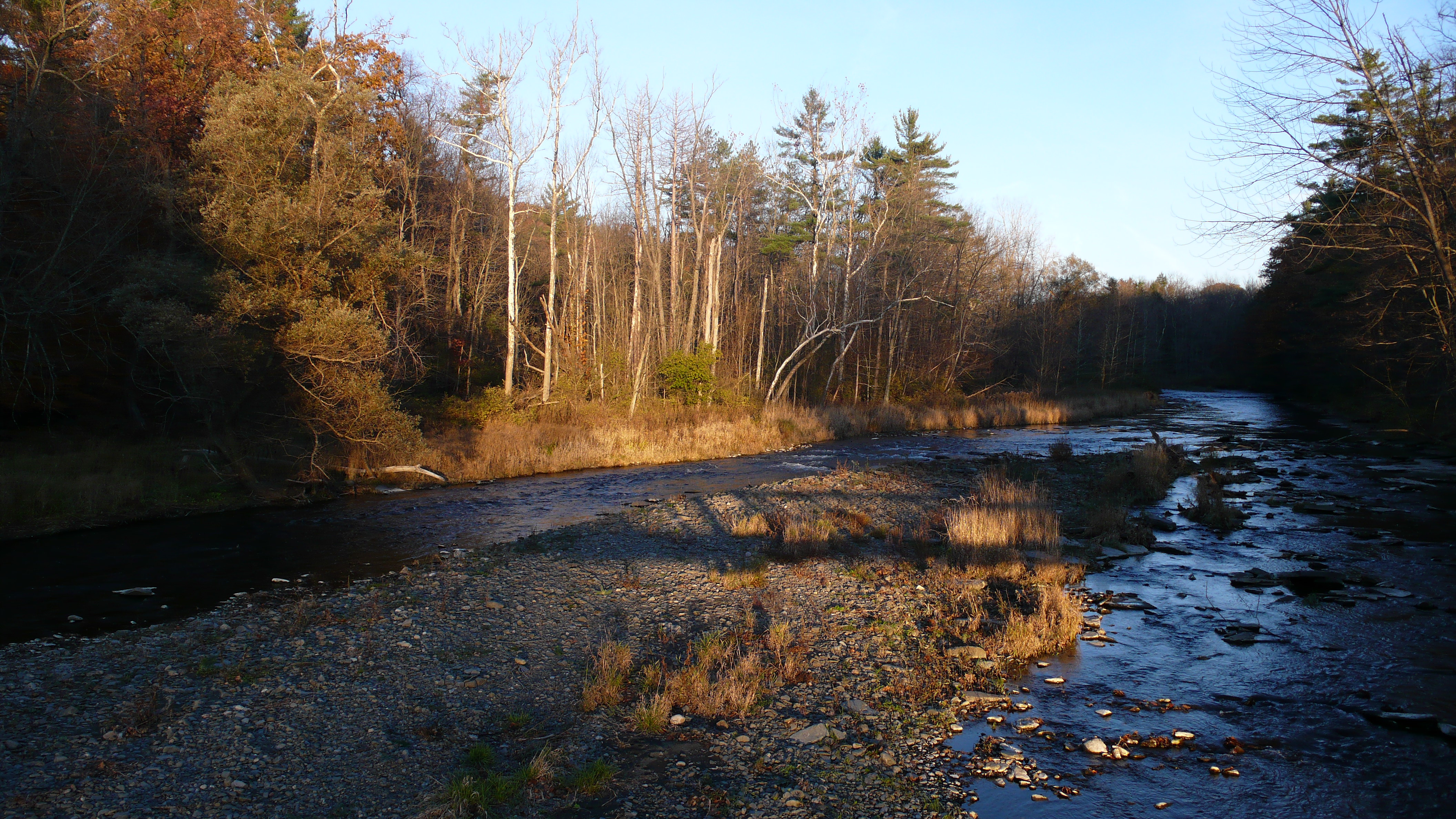 Evening light over Fall Creek at the Cornell Plantations